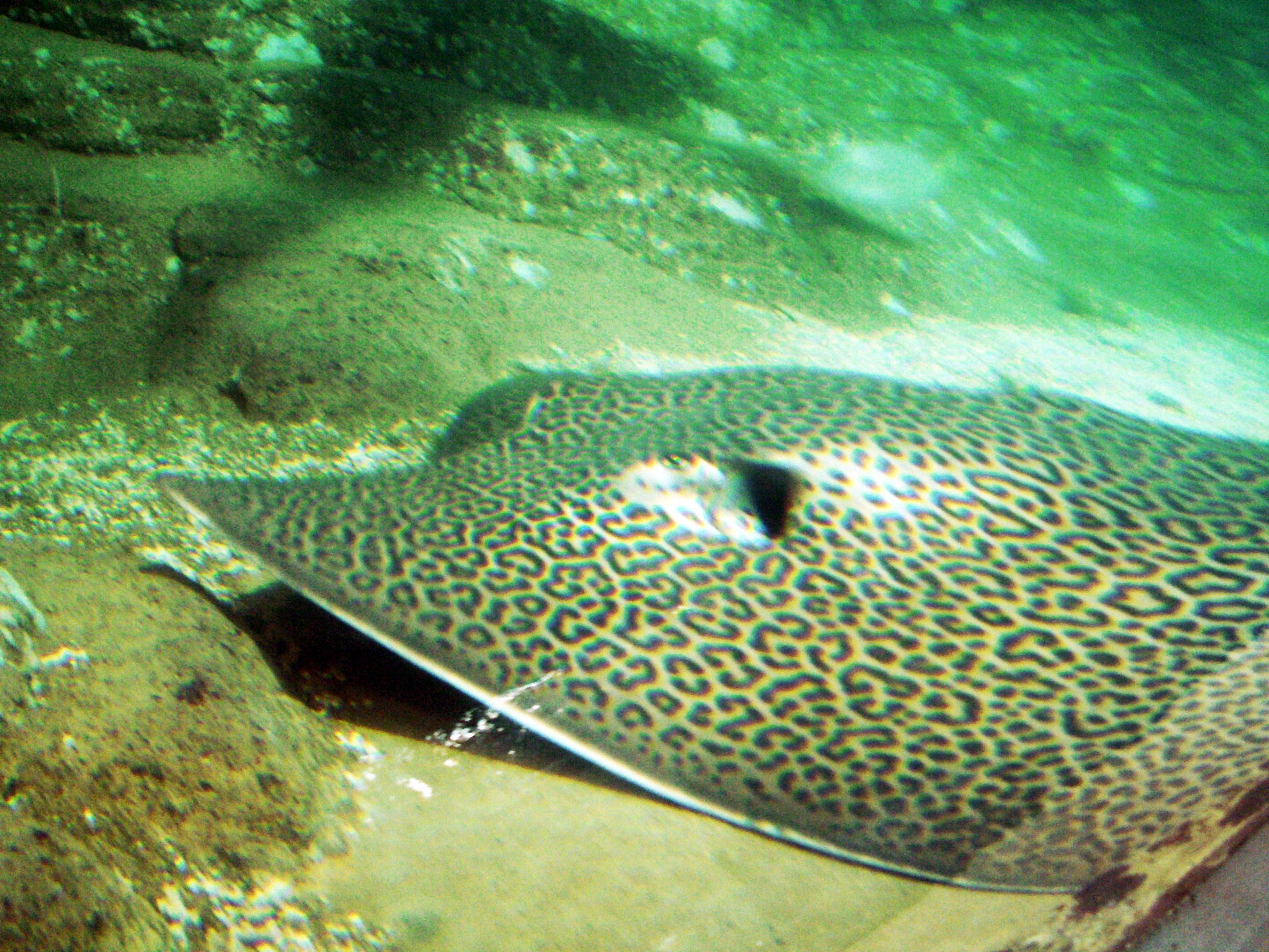 Leopard whipray (Himantura leoparda) at Underwater World in Mooloolaba, Queensland, Australia. From ray pictures by